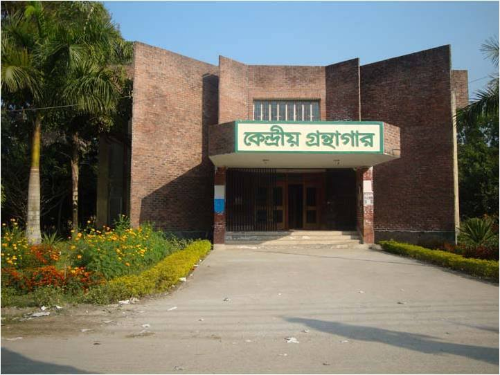 Central Library of PSTU. This is one of the favorite places of this campus